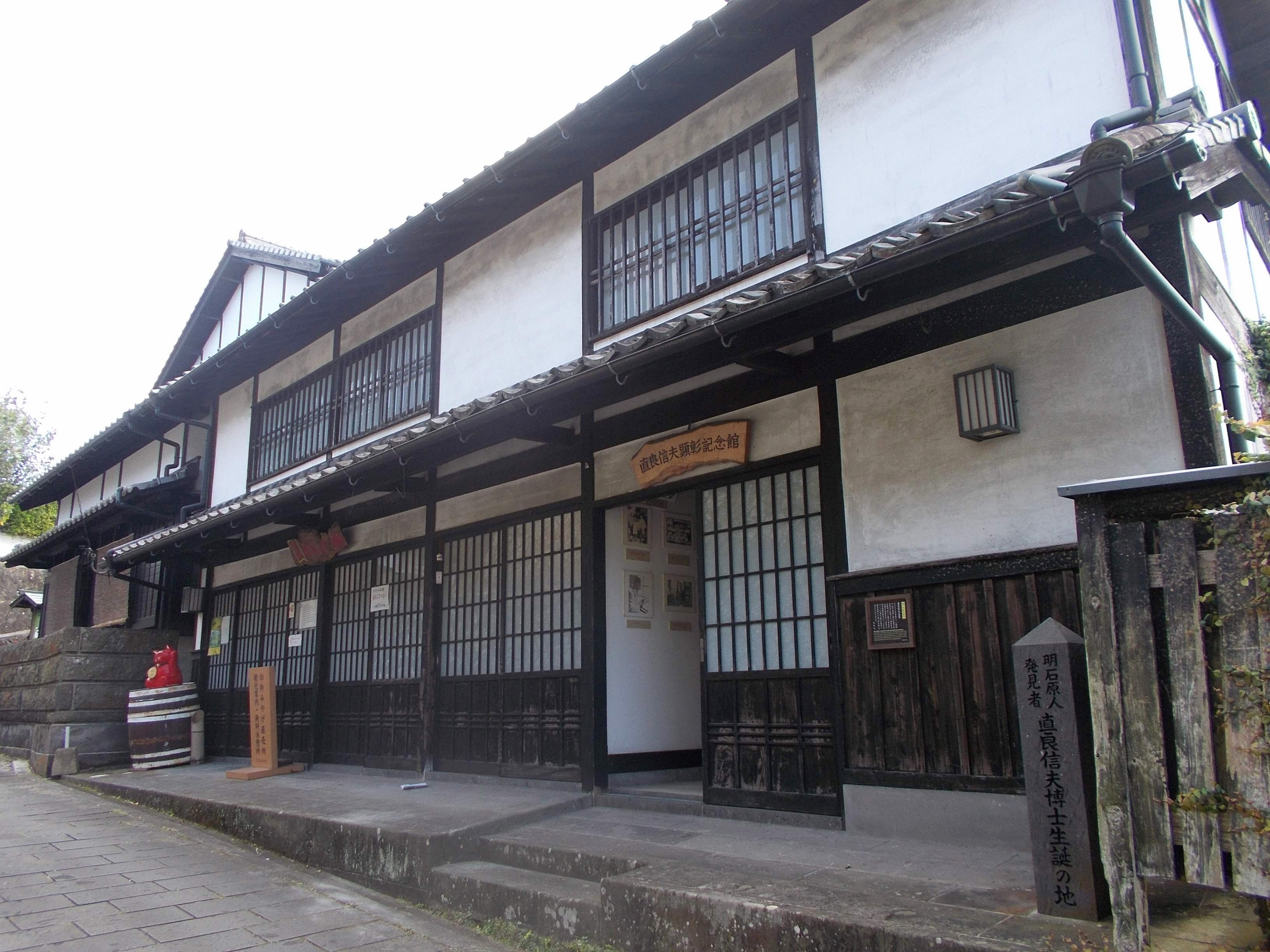 Nobuo Naora Memorial Museum, Usuki, Oita, Japan